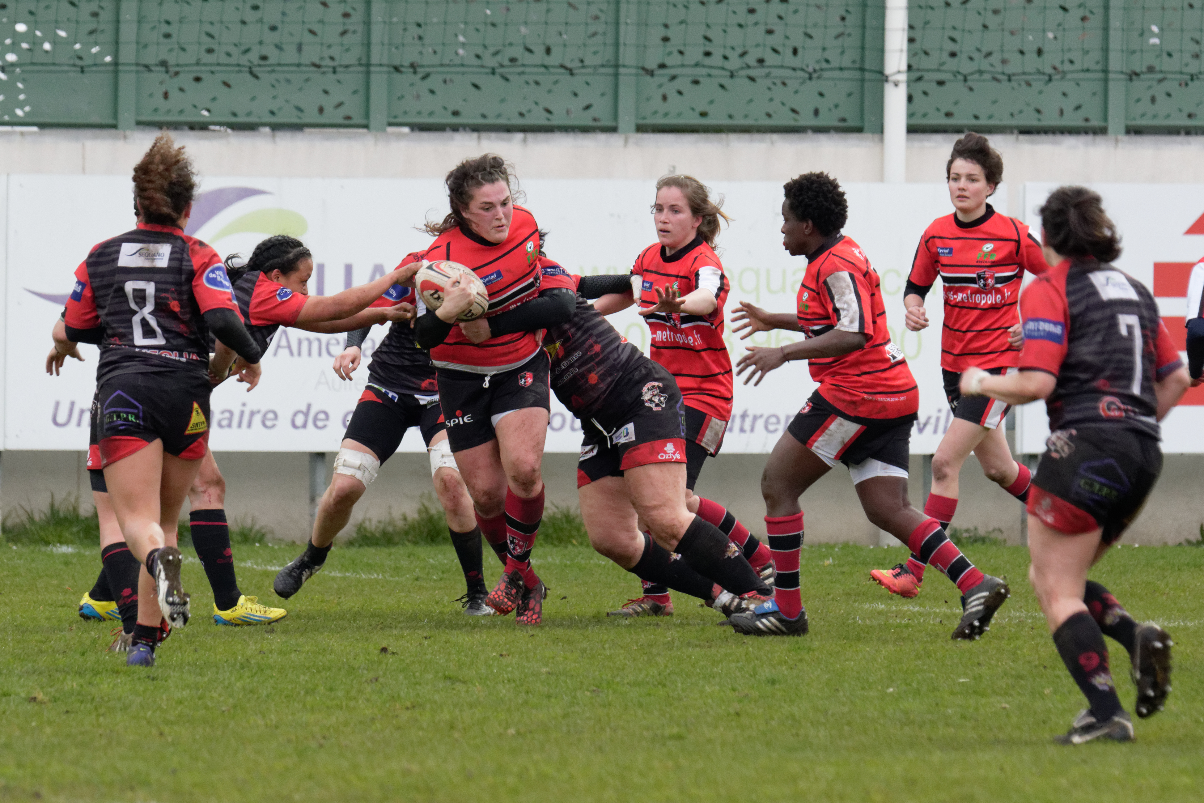 Bobigny vs Rennes, Top 8, 4th April 2015.